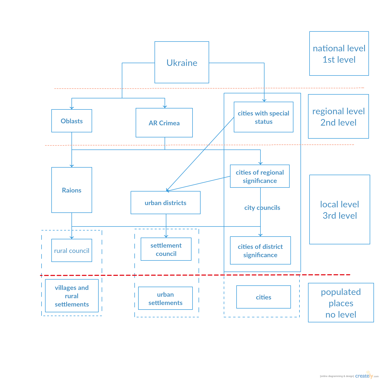 Simple flow chart of administrative divisions of Ukraine